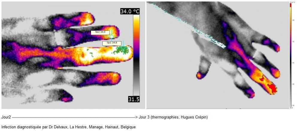 medical thermography of a paronychia, early stage